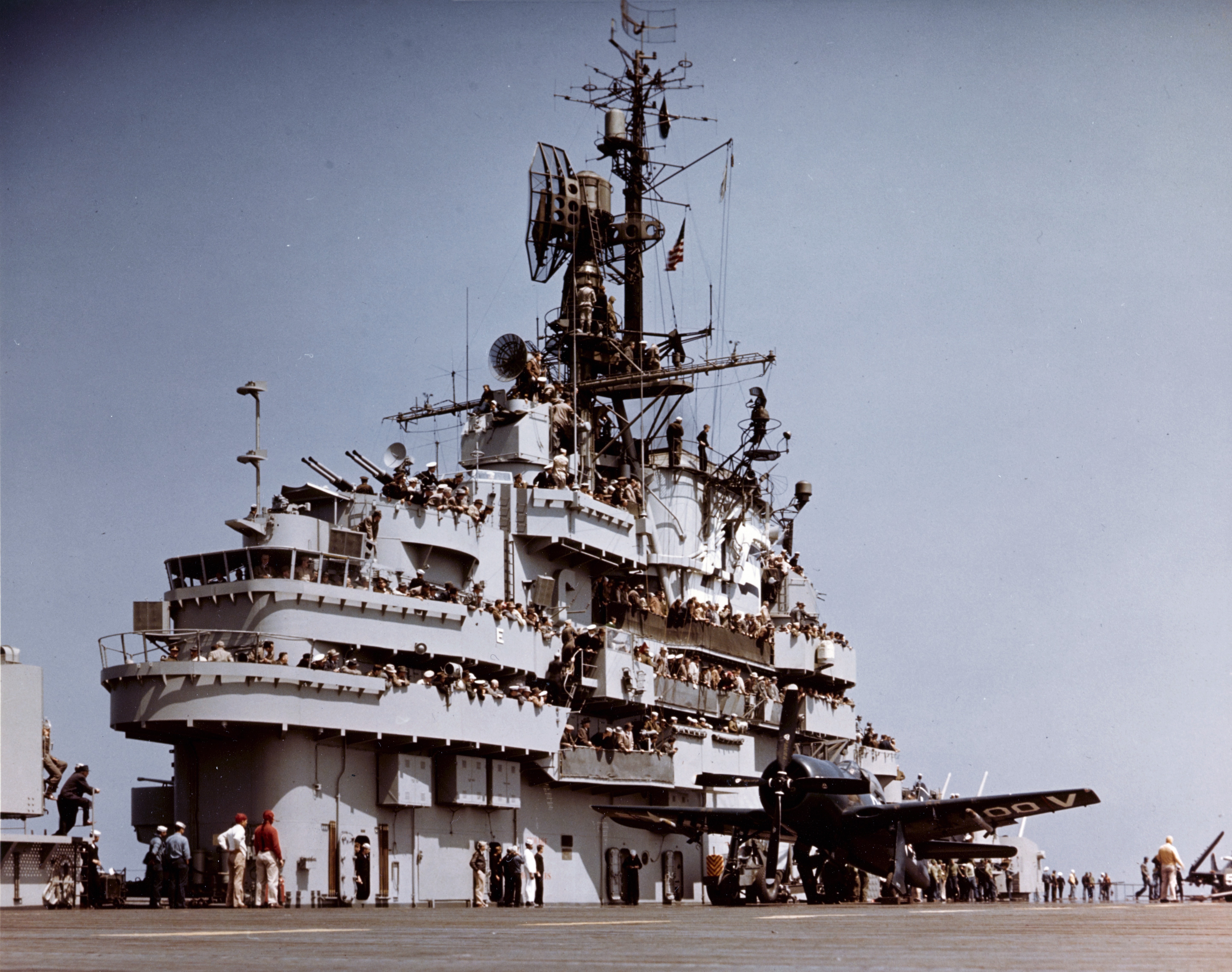 A U.S. Navy Grumman F8F-2 Bearcat of Fighter Squadron 111 (VF-111) "Sundowners", assigned to Carrier Air Group 11 (CVAG-11), on the aircraft carrier USS Valley Forge (CV-45) on 27 April 1949. This appears to be a demonstration, as there are a large number of civilians watching from the island walkways. The Bearcat is armed with two 12.7 cm (5 in) HVAR rockets. Note the large number of people on the island, and the large SX-radar, the Mk 37 gun director with MK 25 radar, and the radar-controlled 40 mm quadruple flak.